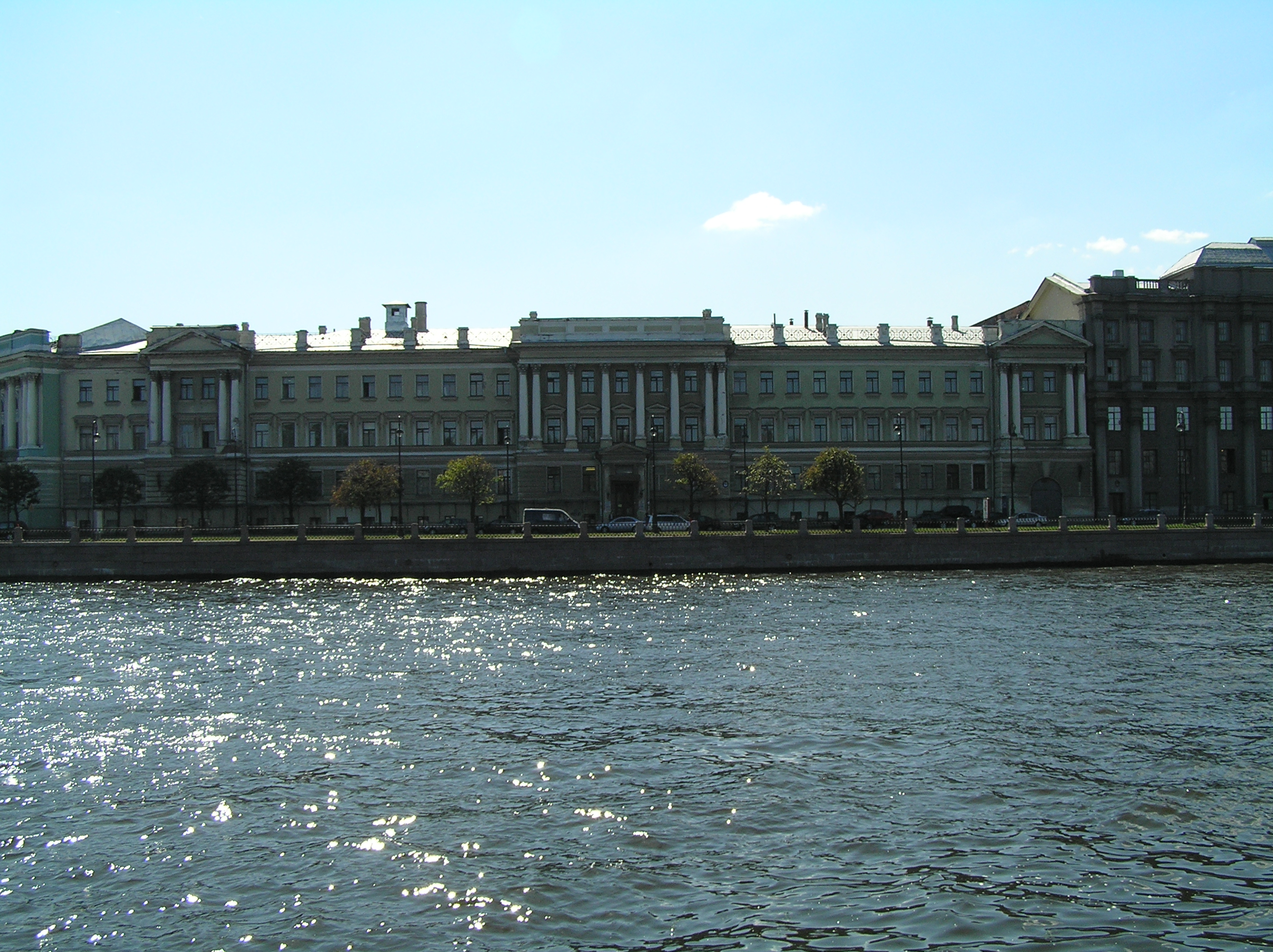 Psychology dept of Saint-Petersburg State University